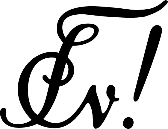 sign ot the Landsmannschaft Saxonia Stuttgart